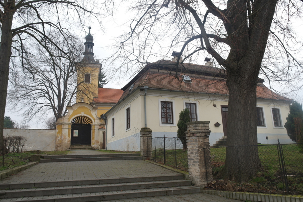 Church of St. Wenceslas with the parish, Loděnice 38, above the square, Loděnice (Beroun District). Originally a Romanesque church from the second half of the 12th century, rebuilt in Baroque style in the year 1725.